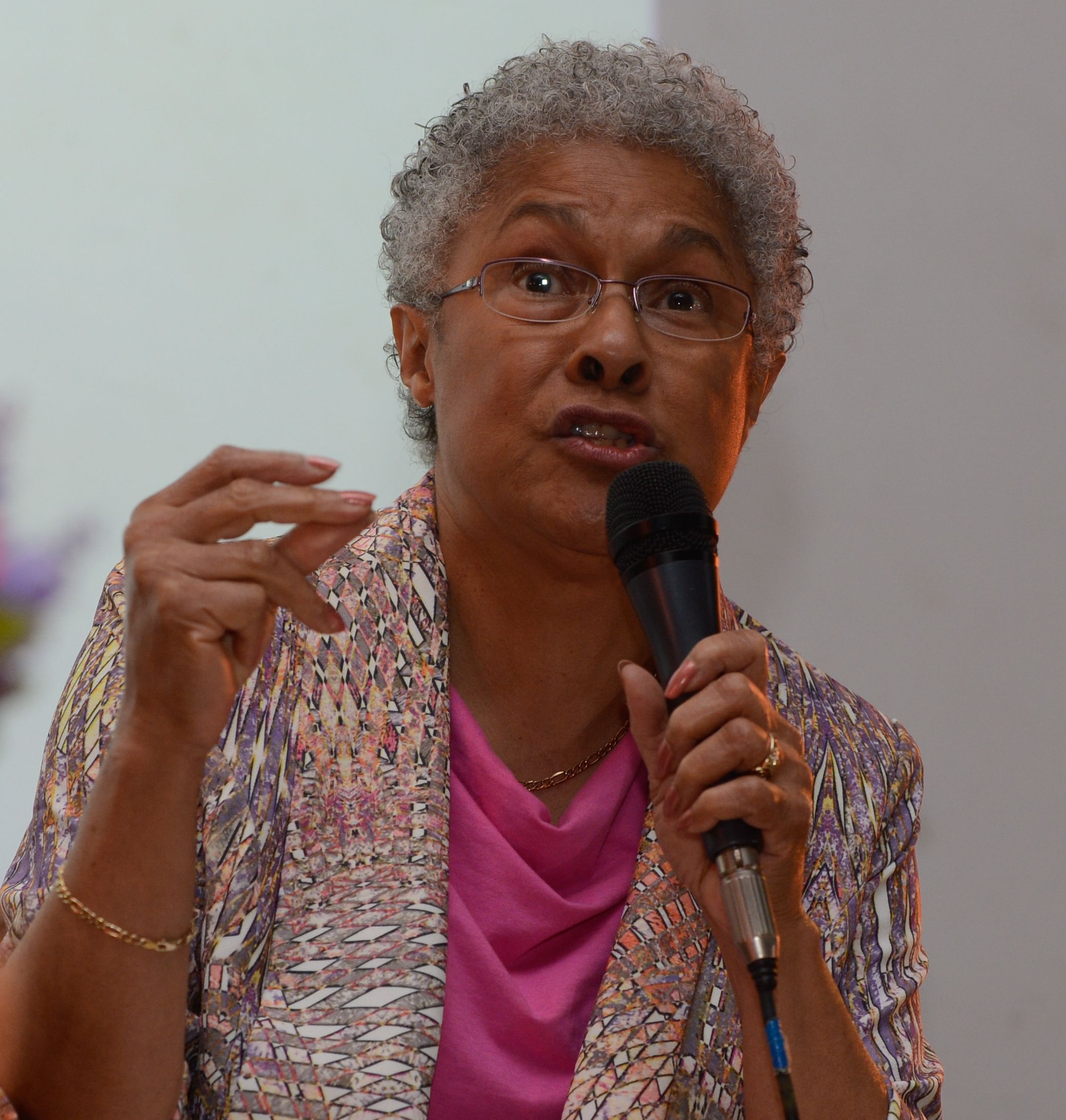 Patricia Hill Collins during a conference in Brazil. Photo by Valter Campanato/Agência Brasil - CCBY3.0